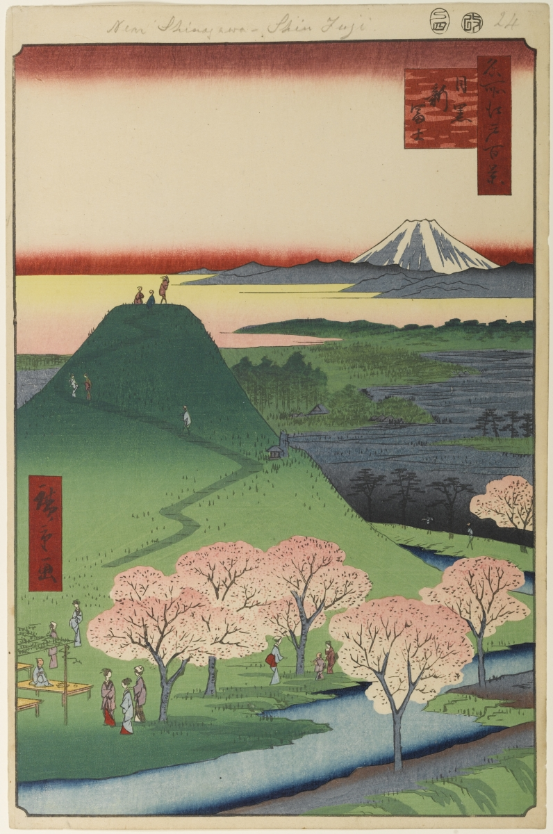 Part of the series One Hundred Famous Views of Edo, no. 024, part 1: Spring.